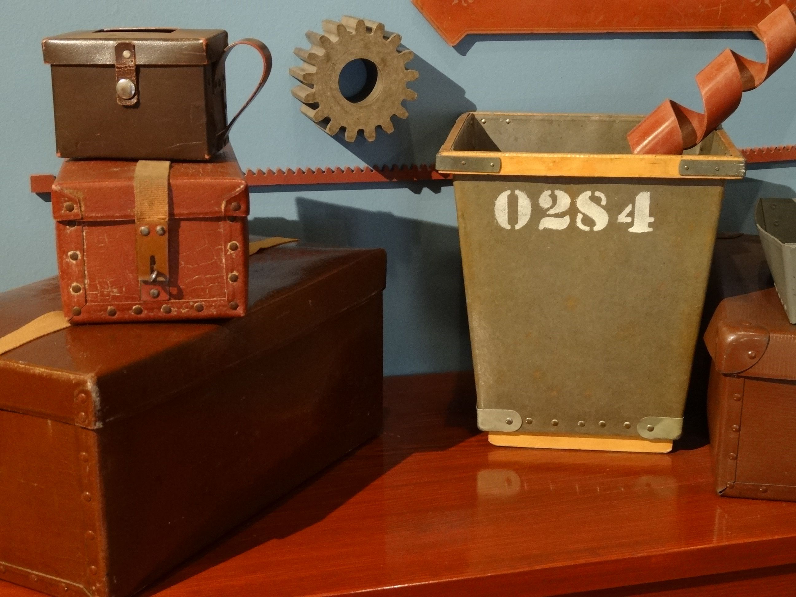 Boxes, basket, cog wheel and rack are examples of products made in vulcanized fibre at Vadsbo museum, Mariestad, Sweden.